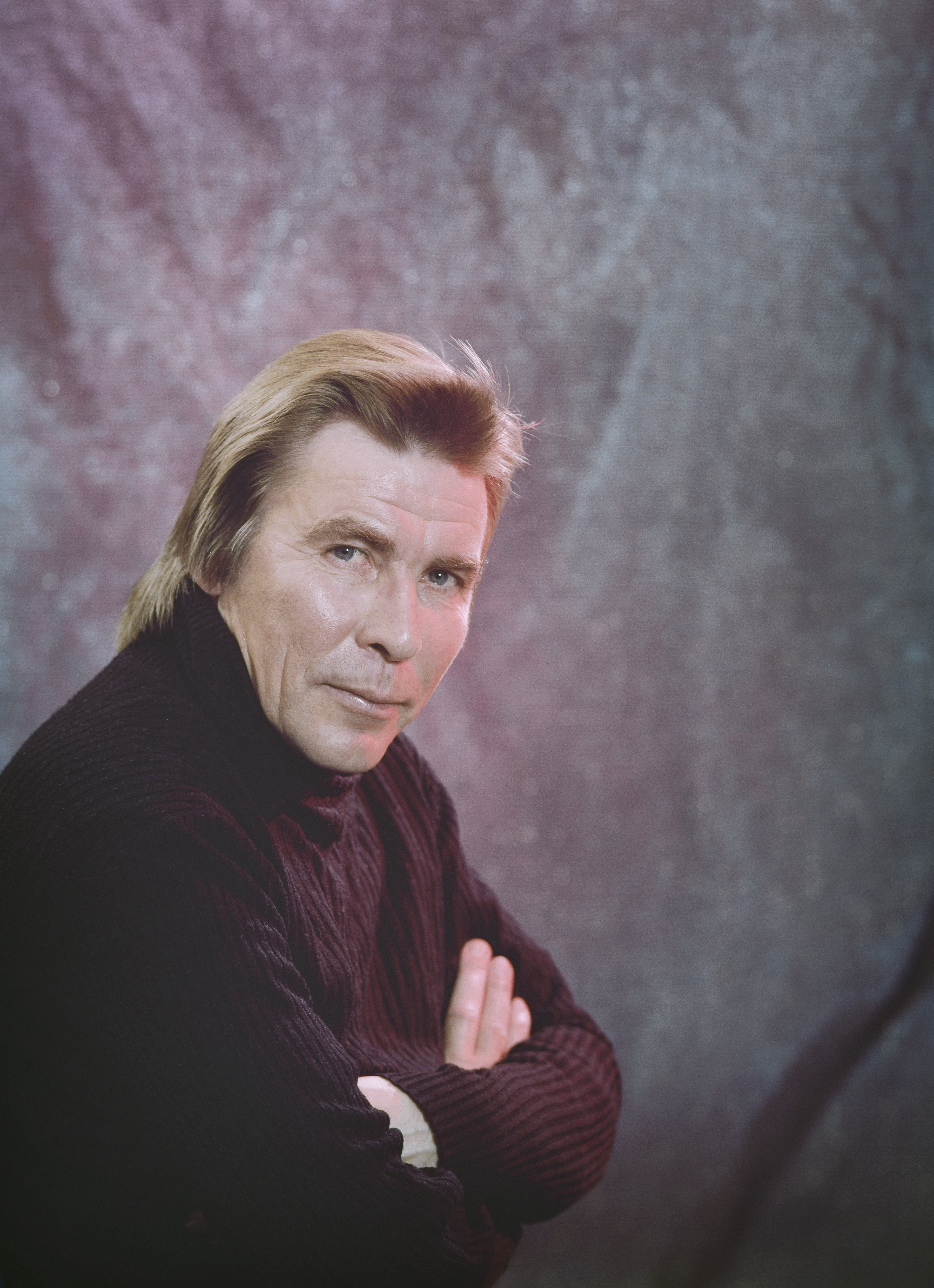 Photograph of the Finnish poet Kalevi Rahikainen (1927–1992).